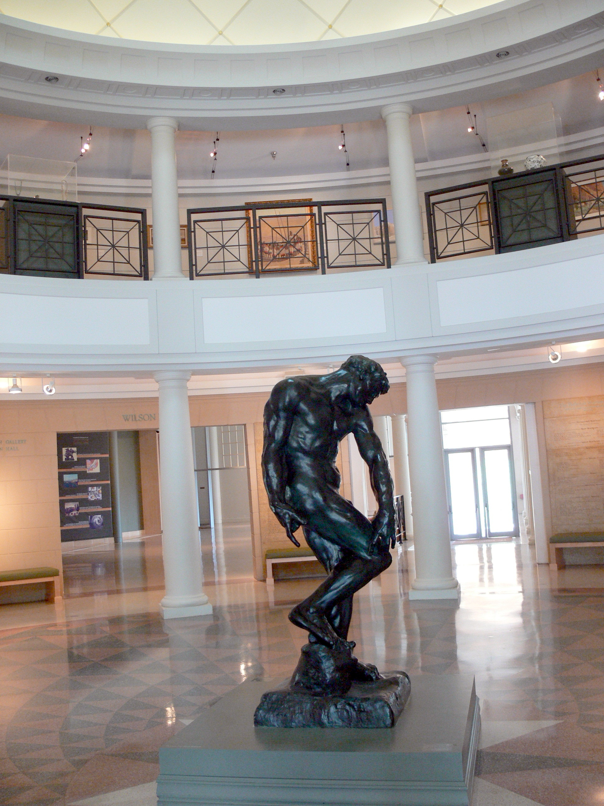 The Philbrook Museum of Art. Zink Rotunda - Entrance hall to the museum